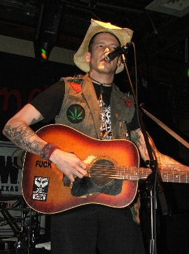 Hank Williams III at the South by Southwest Festival 2006.